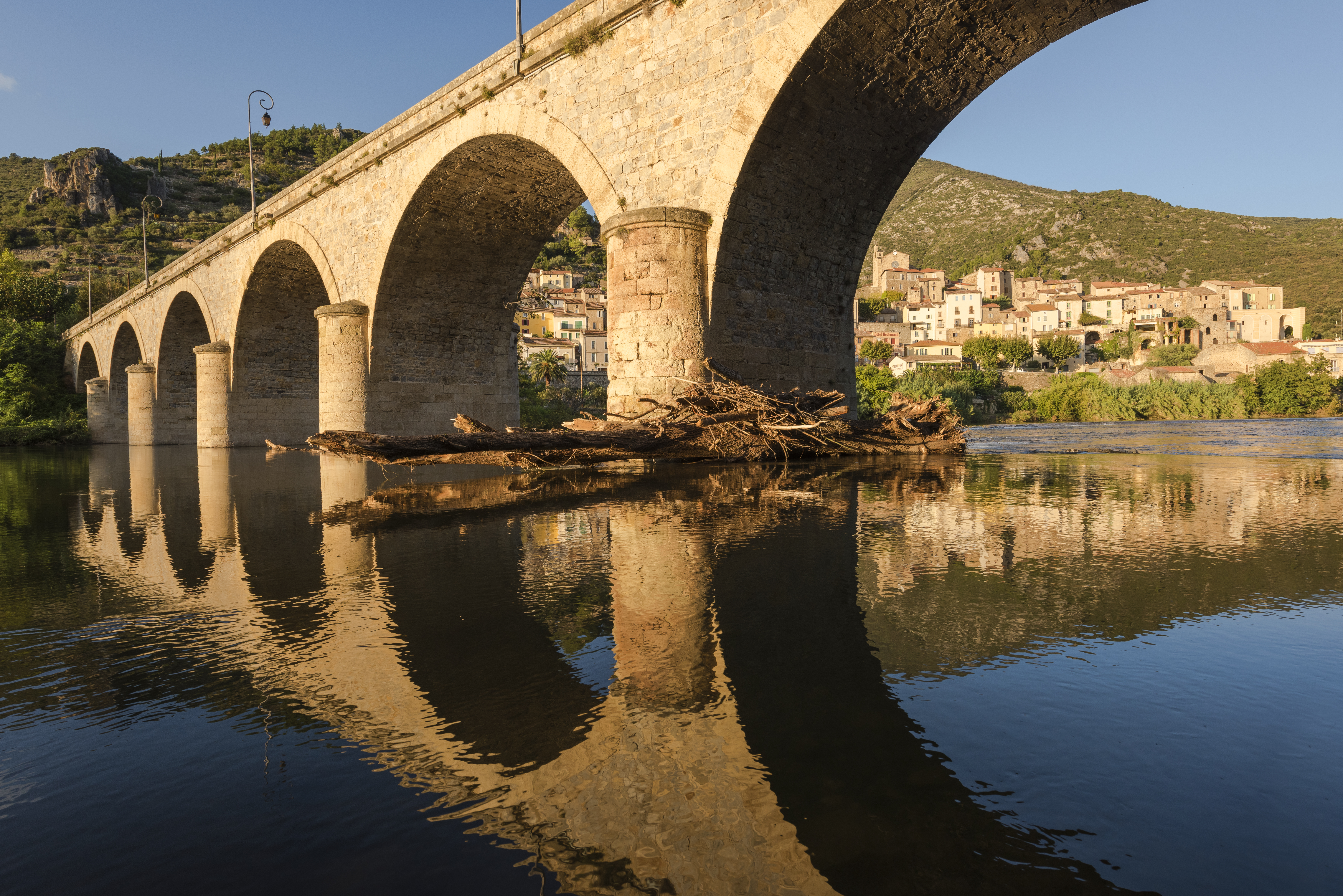 The Bridge above the Orb River, arch bridge of 7 archs dated from 1870. And in the background a part of the village of Roquebrun, Hérault, France. Haut-Languedoc Regional Natural Park.